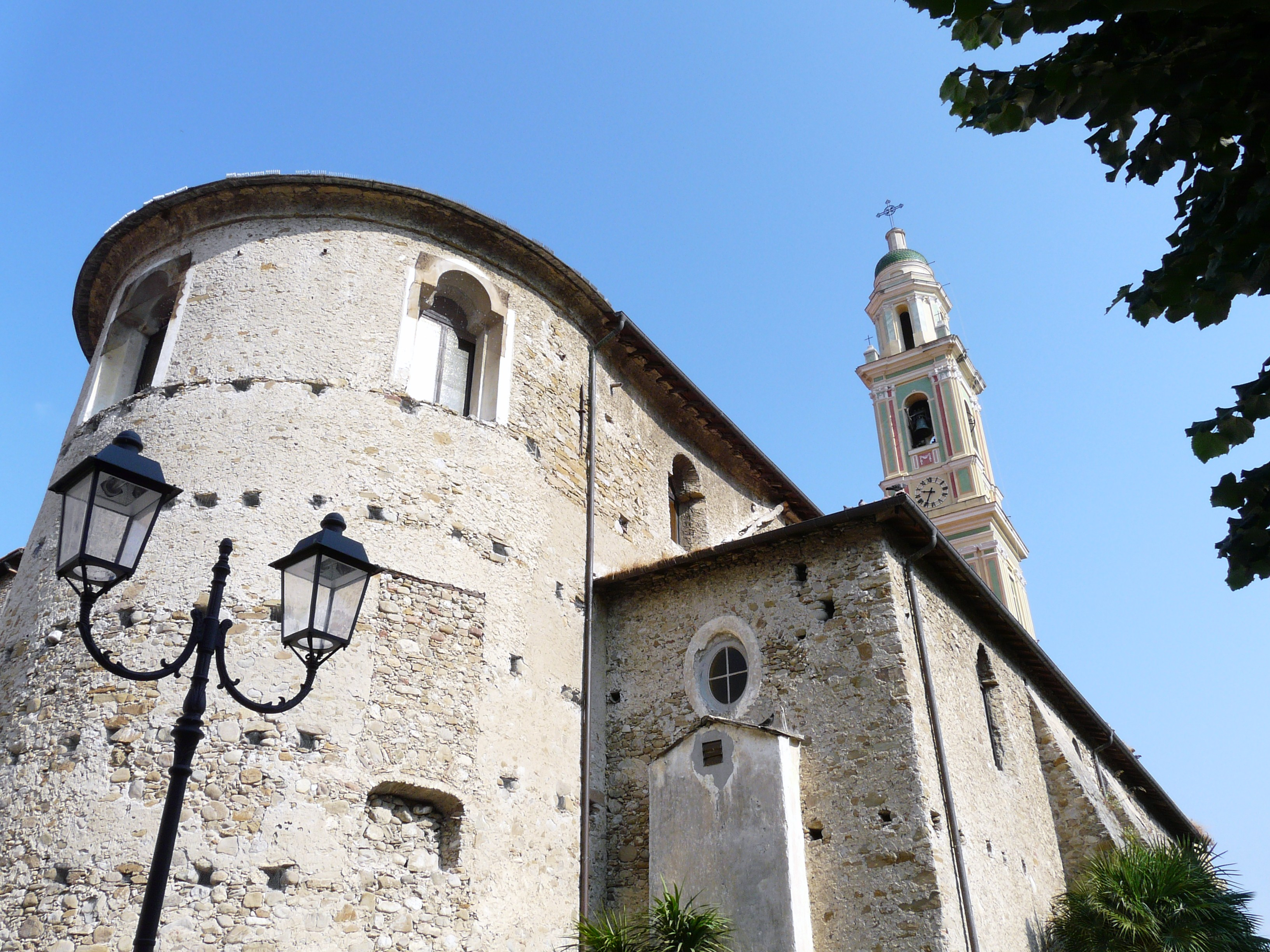 The apse of Chiesa San Michele (Saint Michael's Church), Camporosso, Liguria, Italy.